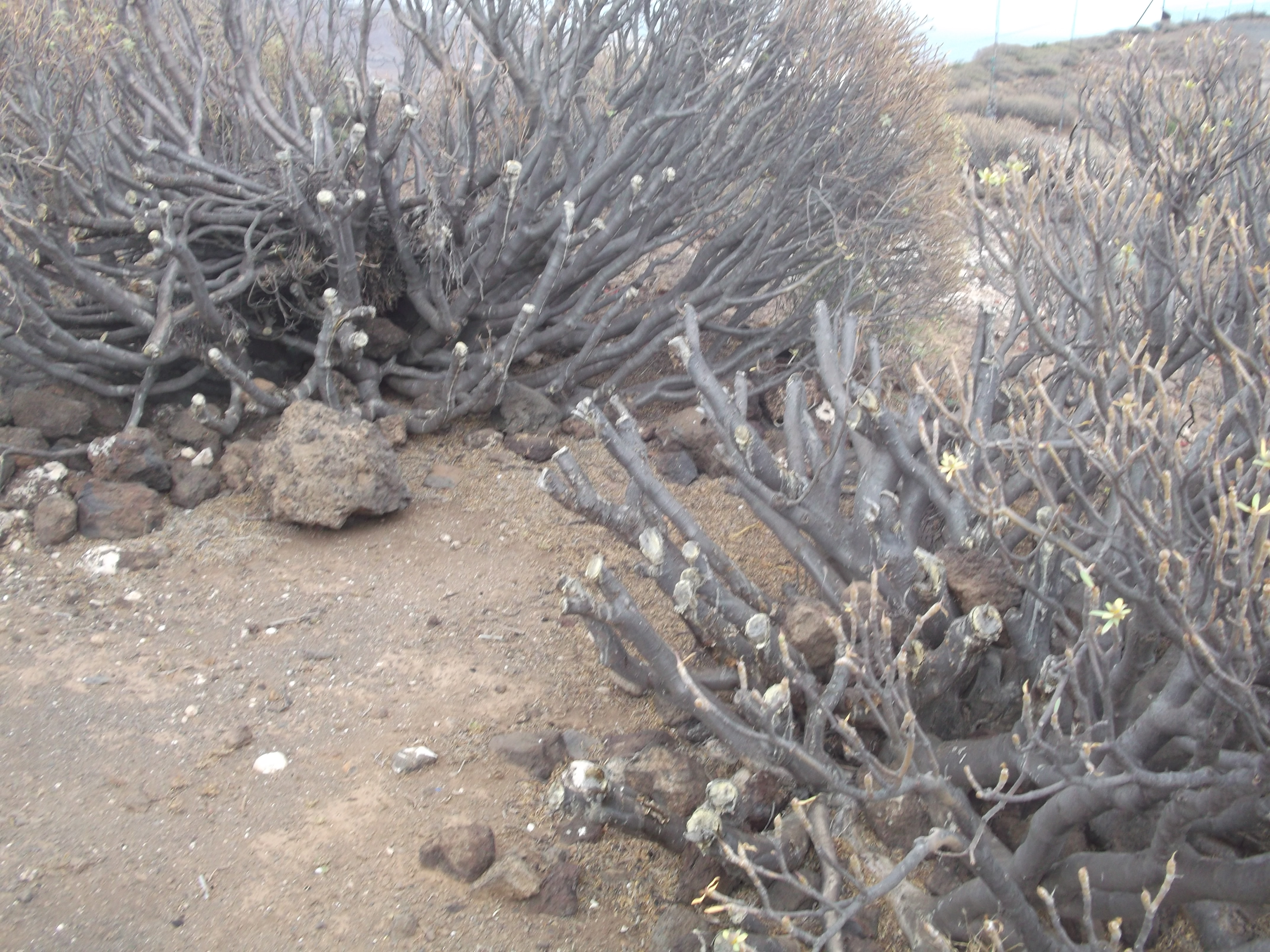 Damages in Euphorbia Balsamifera